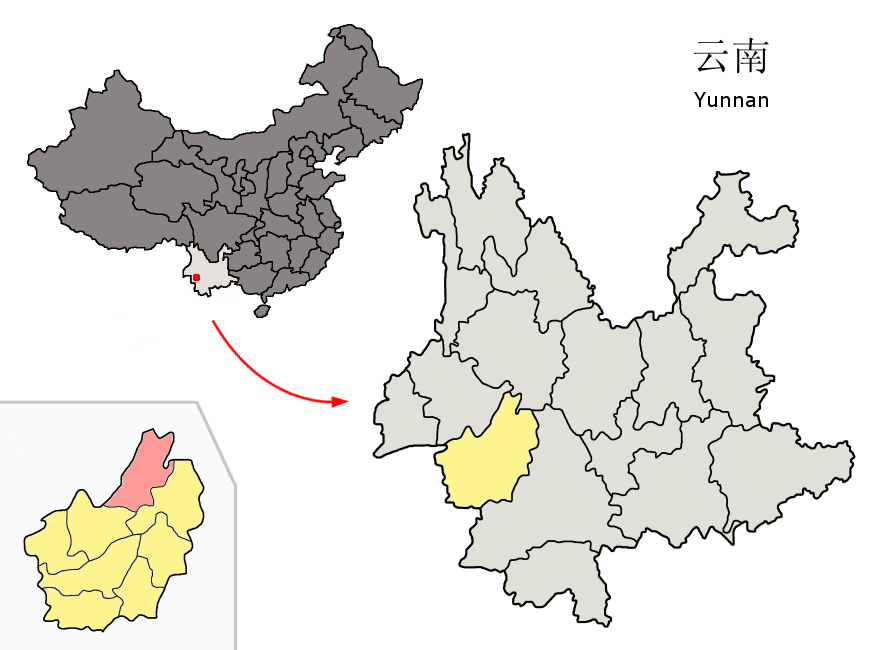 Location of Fengqing County (pink) and Lincang Prefecture (yellow) within Yunnan province of China Map drawn in september 2007 using various sources, mainly : Yunnan province administrative regions GIS data: 1:1M, County level, 1990 Yunnan Counties map from